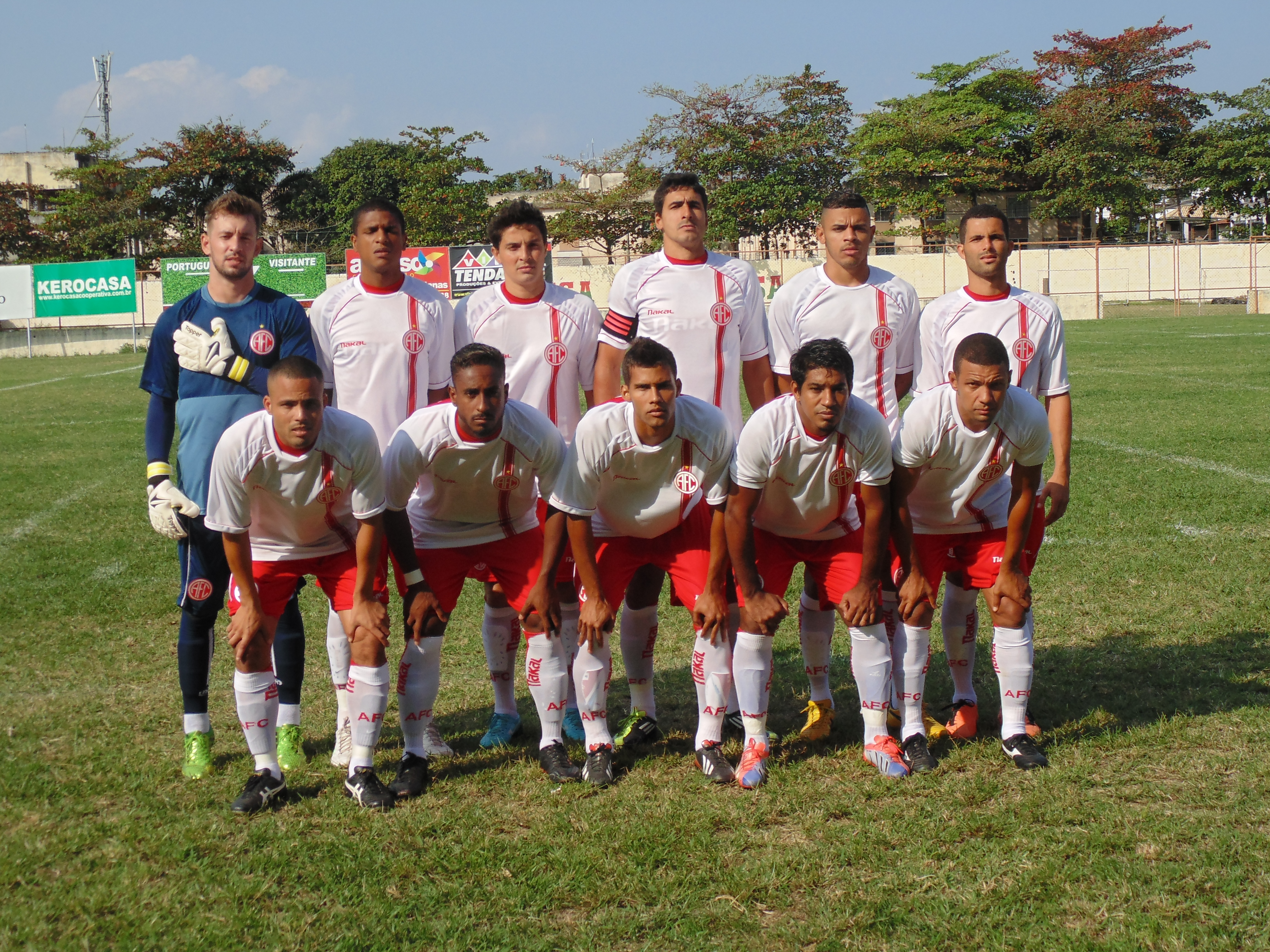 America's team.